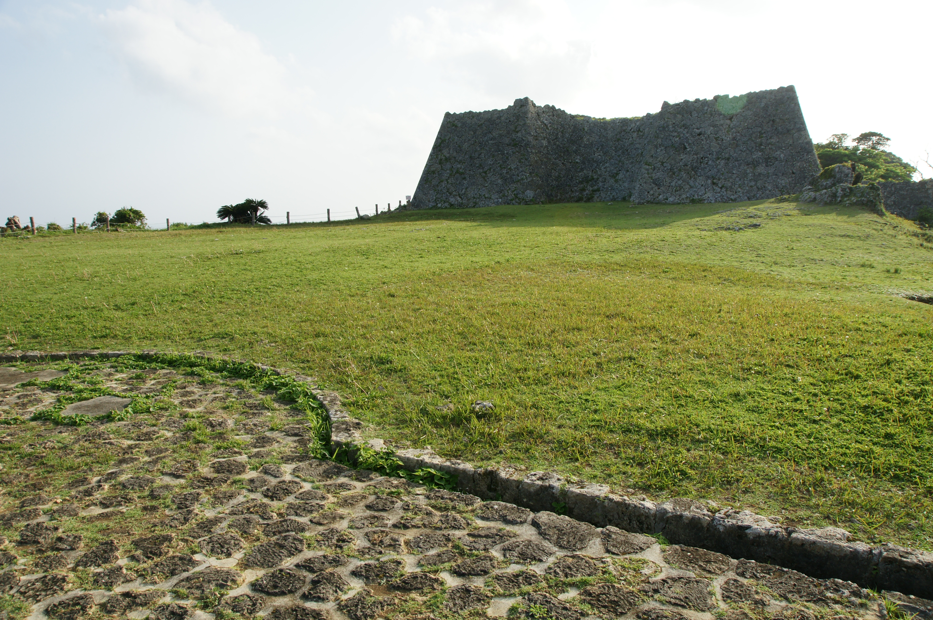 Nakagusuku Castle in Kitanakagusuku and Nakagusuku, Okinawa prefecture, Japan.